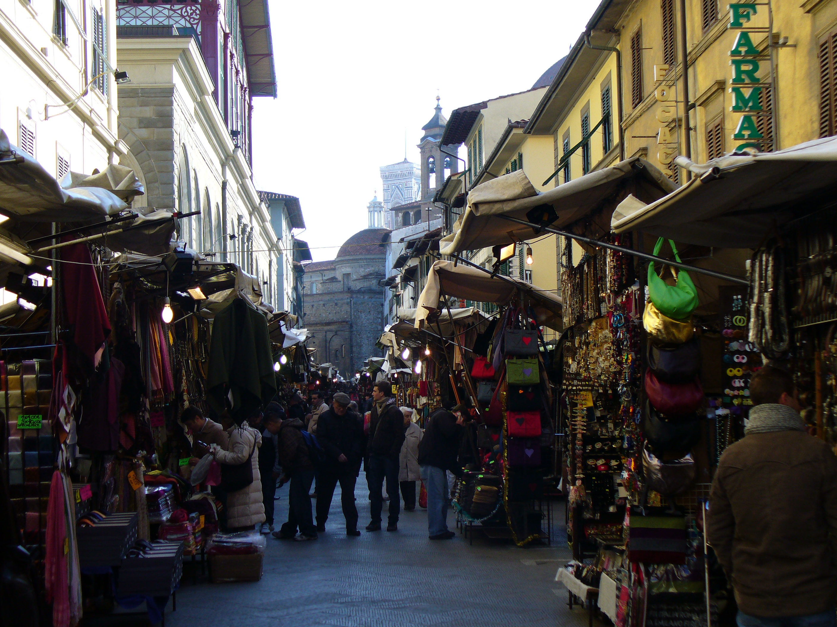 Mercato di San Lorenzo (Florence)